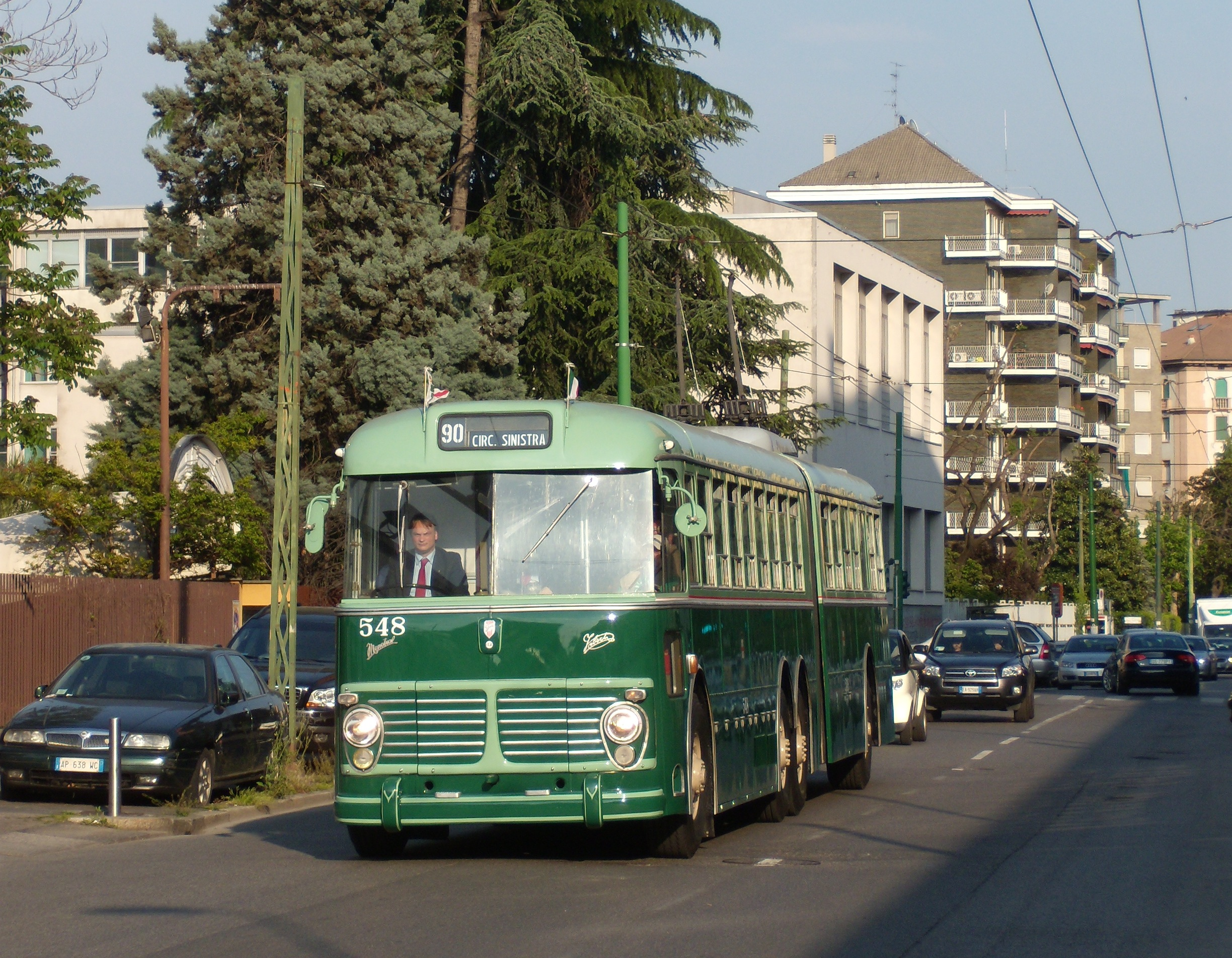 Restored Milan trolleybus 548, a 1958 Fiat 2472 with Viberti body and CGE electrical equipment, in via Tertulliano, on a special excursion. The last vehicles of this type were withdrawn from service in January 1997. No. 548 was restored to original condition and livery in 2008/9.